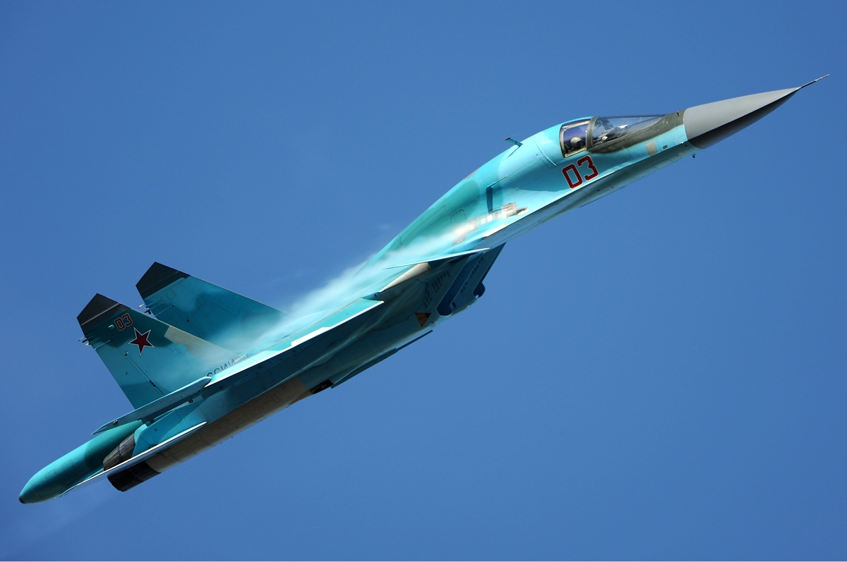 Russian Air Force Sukhoi Su-34